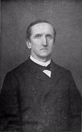 Portrait photograph of Adolph Rudolphi, German physician in Neustrelitz.